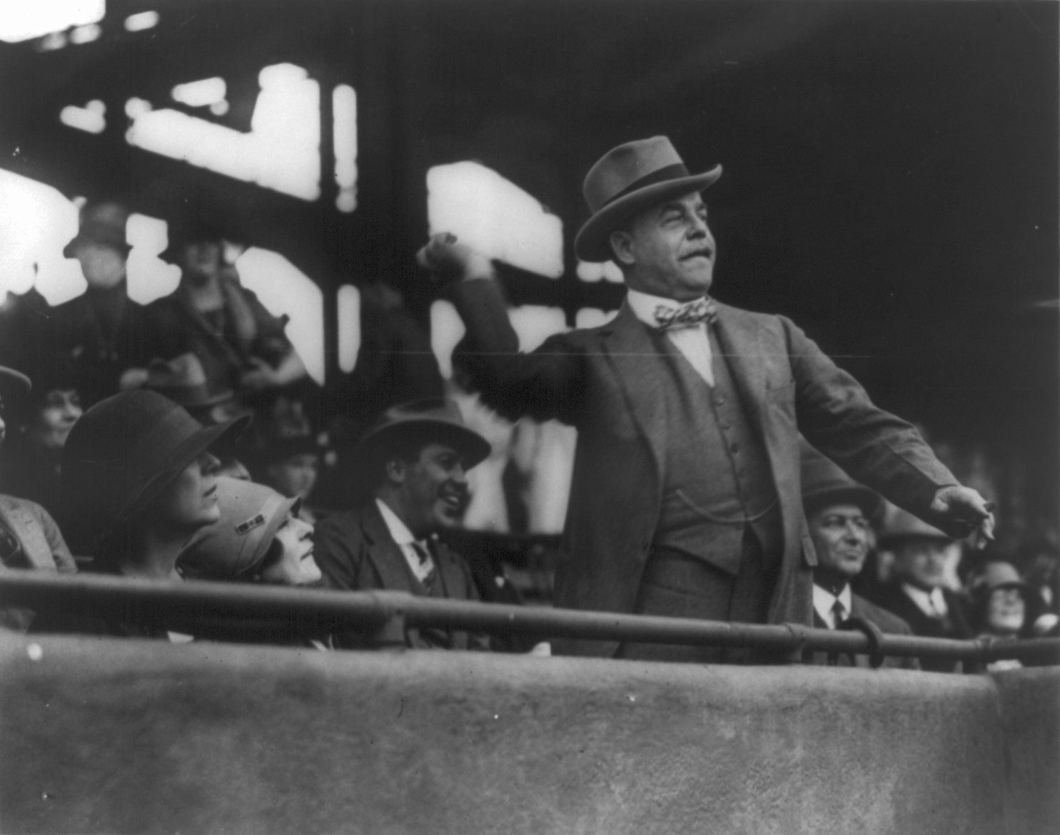 Nicholas Longworth,Speaker of the House, half-length portrait, standing, facing right, throwing out the first ball at the starting game at American League Park, between the Democratic and Republican teams of the House of Representatives